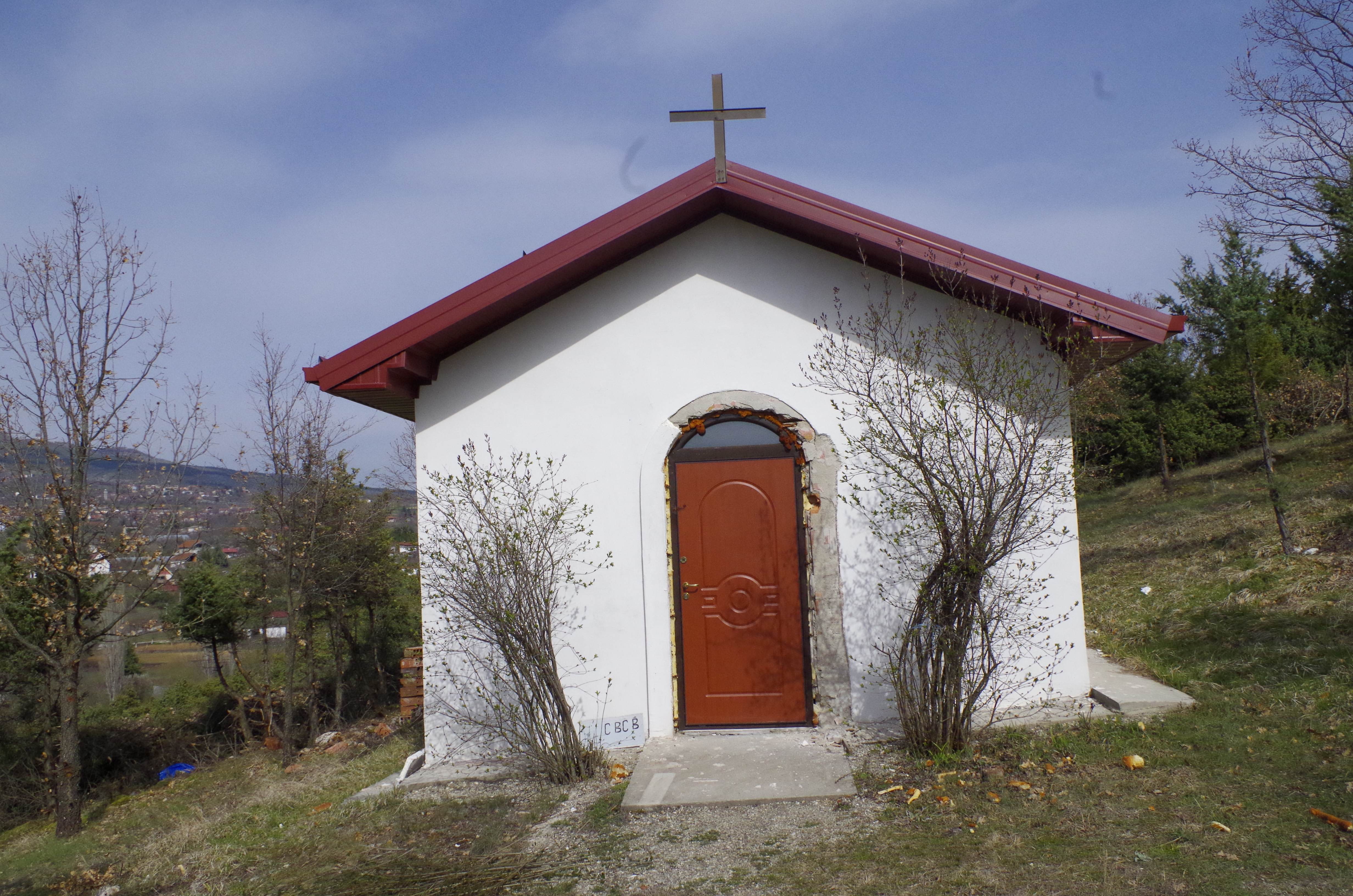 St. Petka Church in Govrlevo Monastery